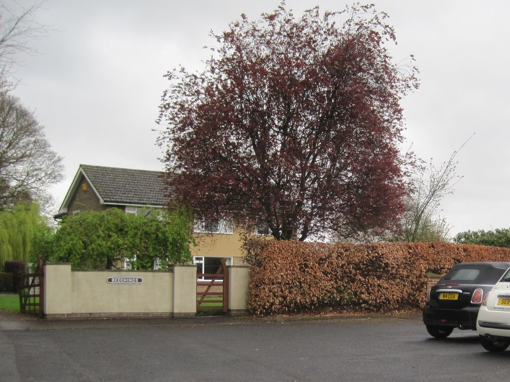 Thorner railway station (site), YorkshireOpened in 1876 by the North Eastern Railway on its line from Leeds to Wetherby, this station closed in 1964. View north towards Bardsey and Wetherby - a new house has been built on the site.